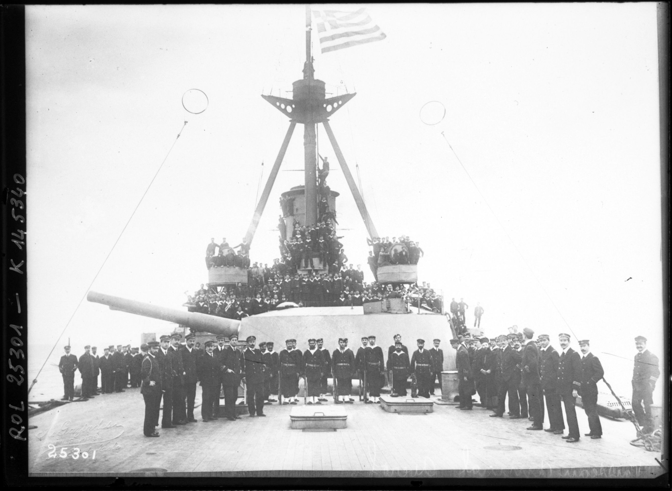 The crew of the cruiser Averof on review on the ship's deck, 1912